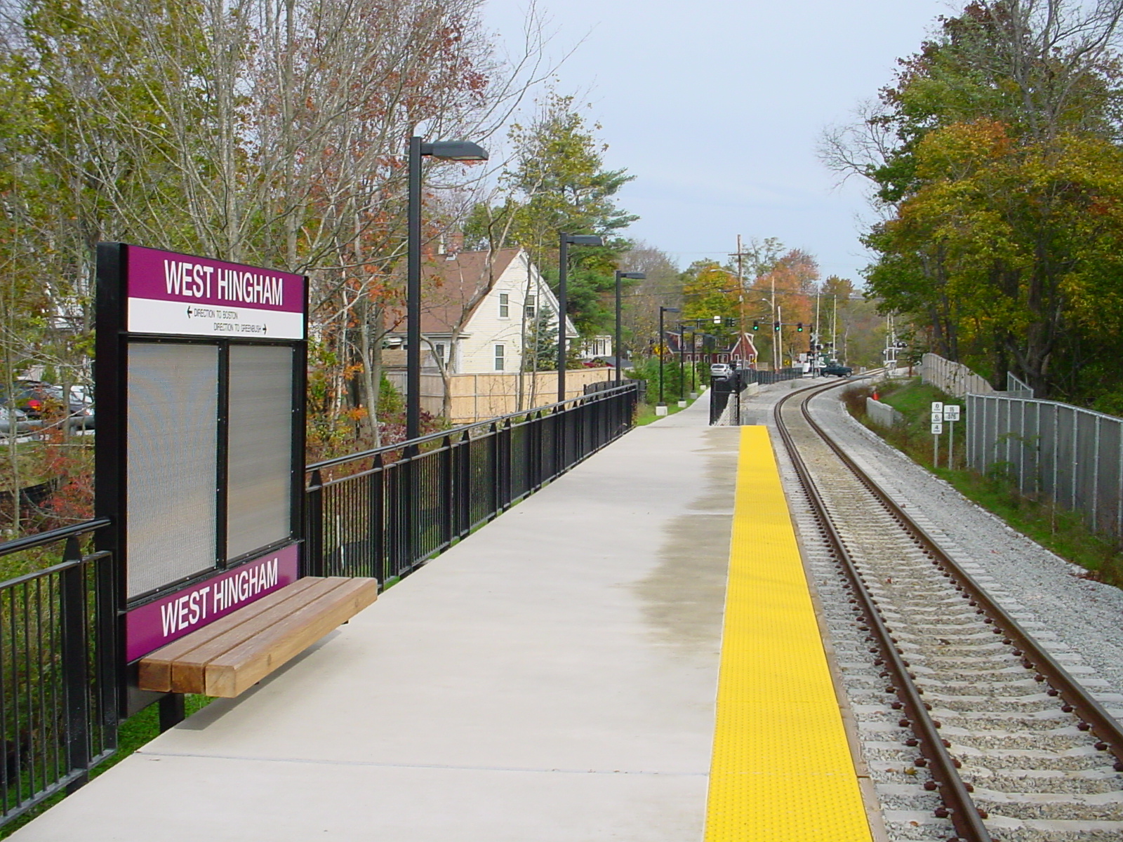 West Hingham station on the MBTA's Greenbush Line, one day after opening